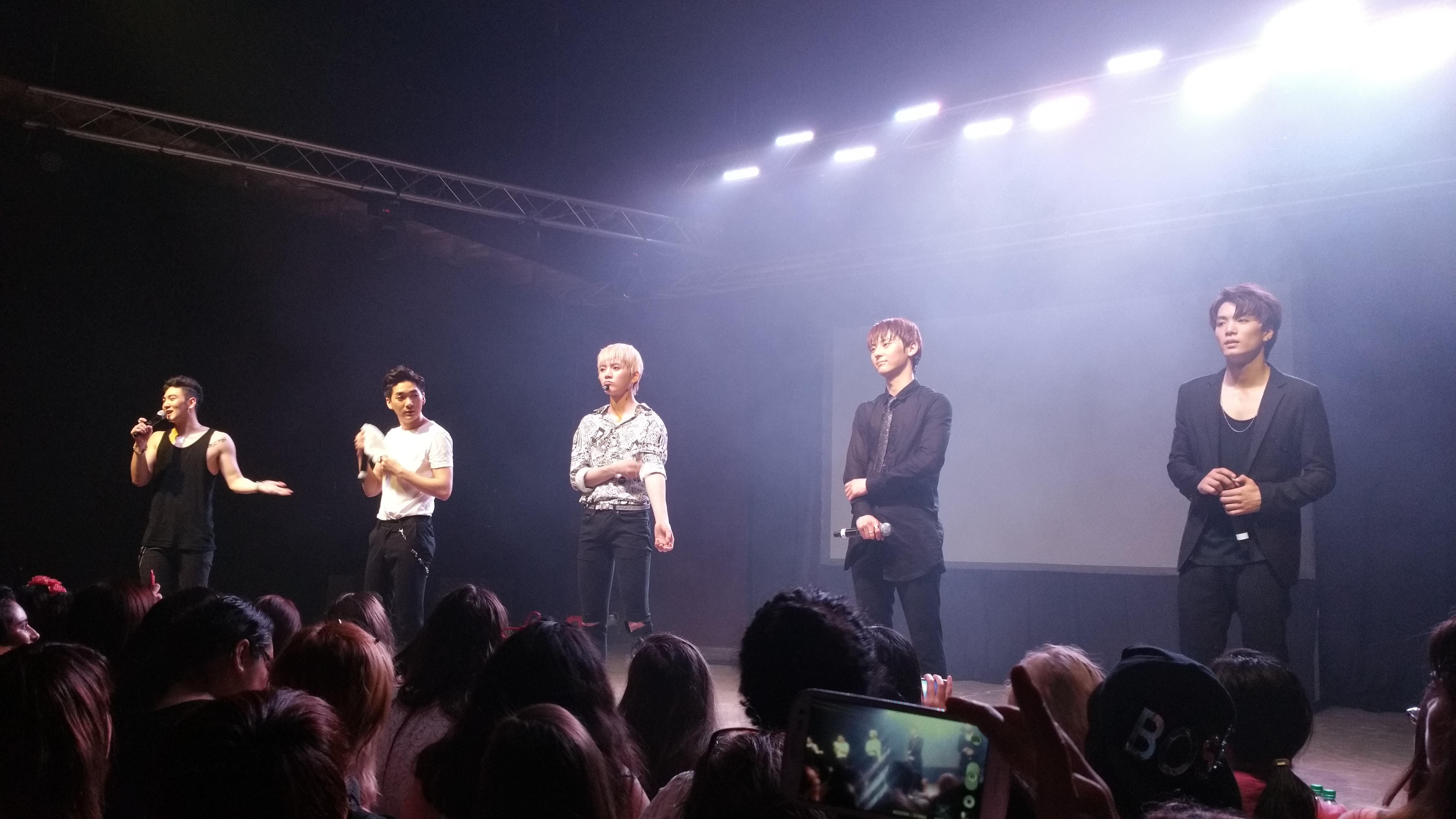 Nu'est performing at Gilley's, Dallas, Texas.